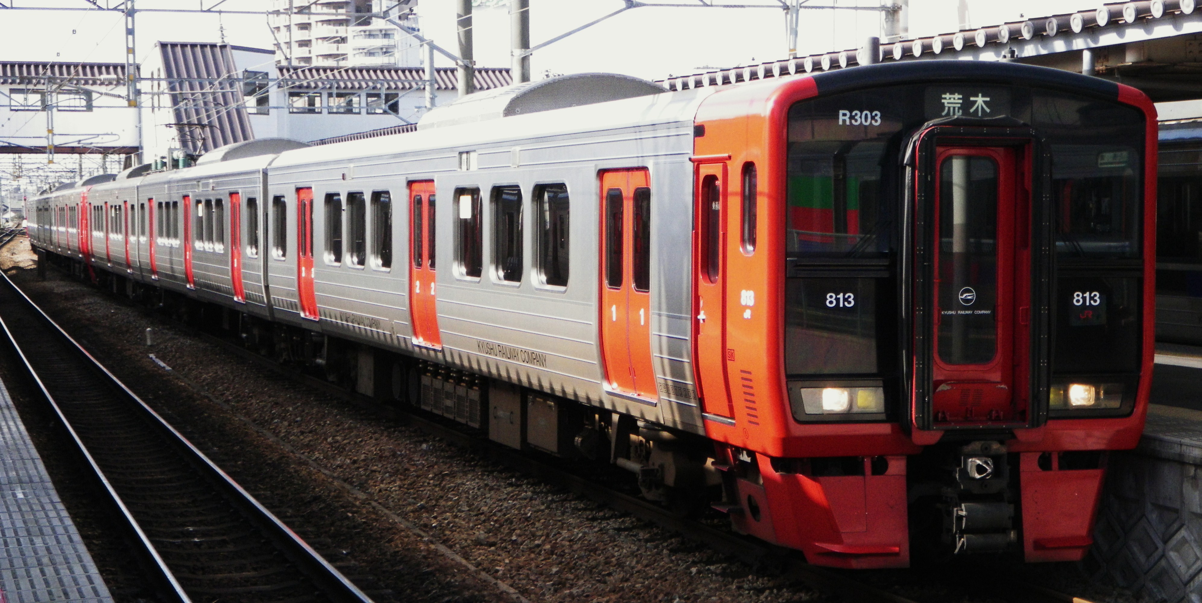 JR Kyushu 813-300 series EMU set R303 at Futsukaichi Station